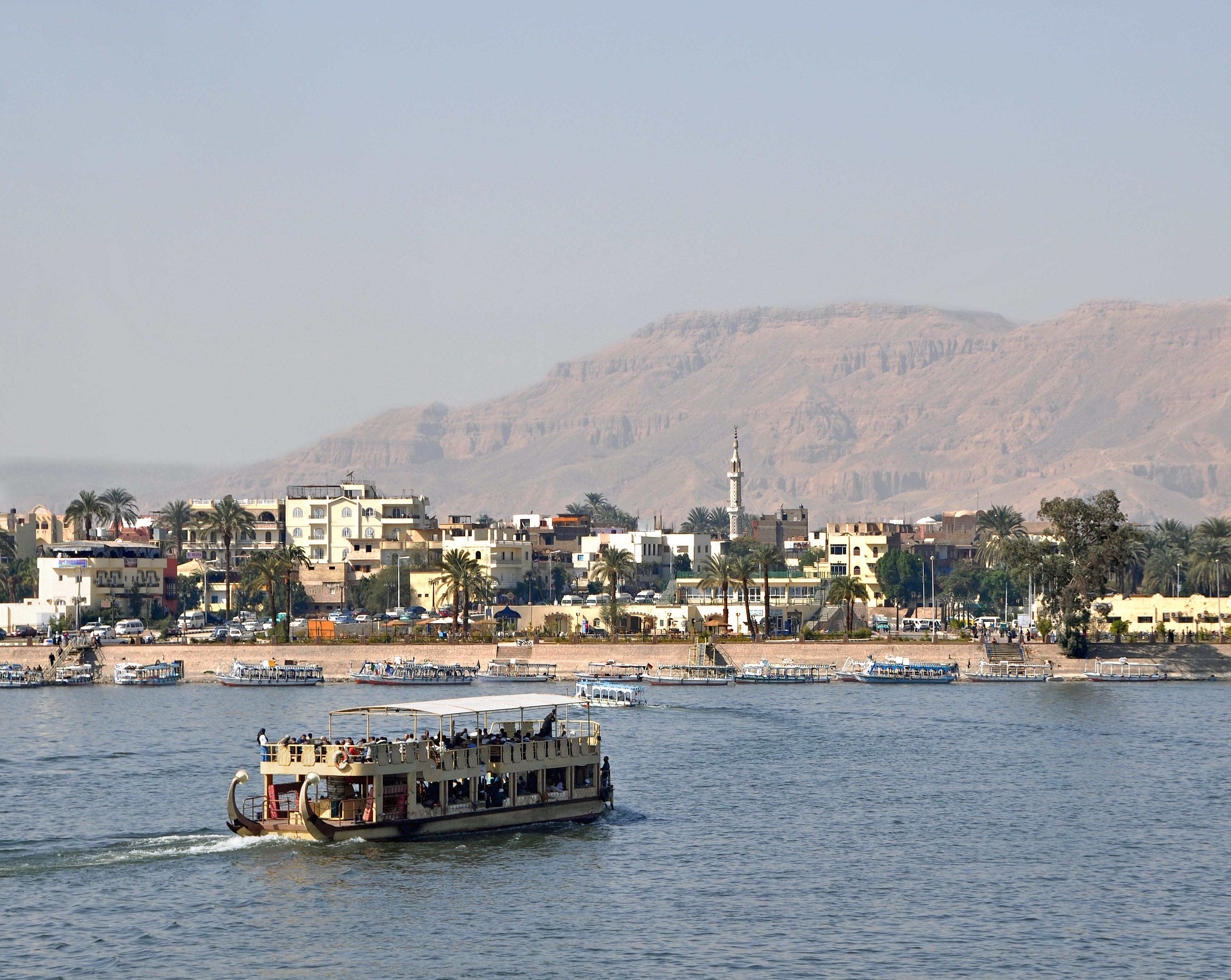 Luxor (Egypt): view on the West Bank